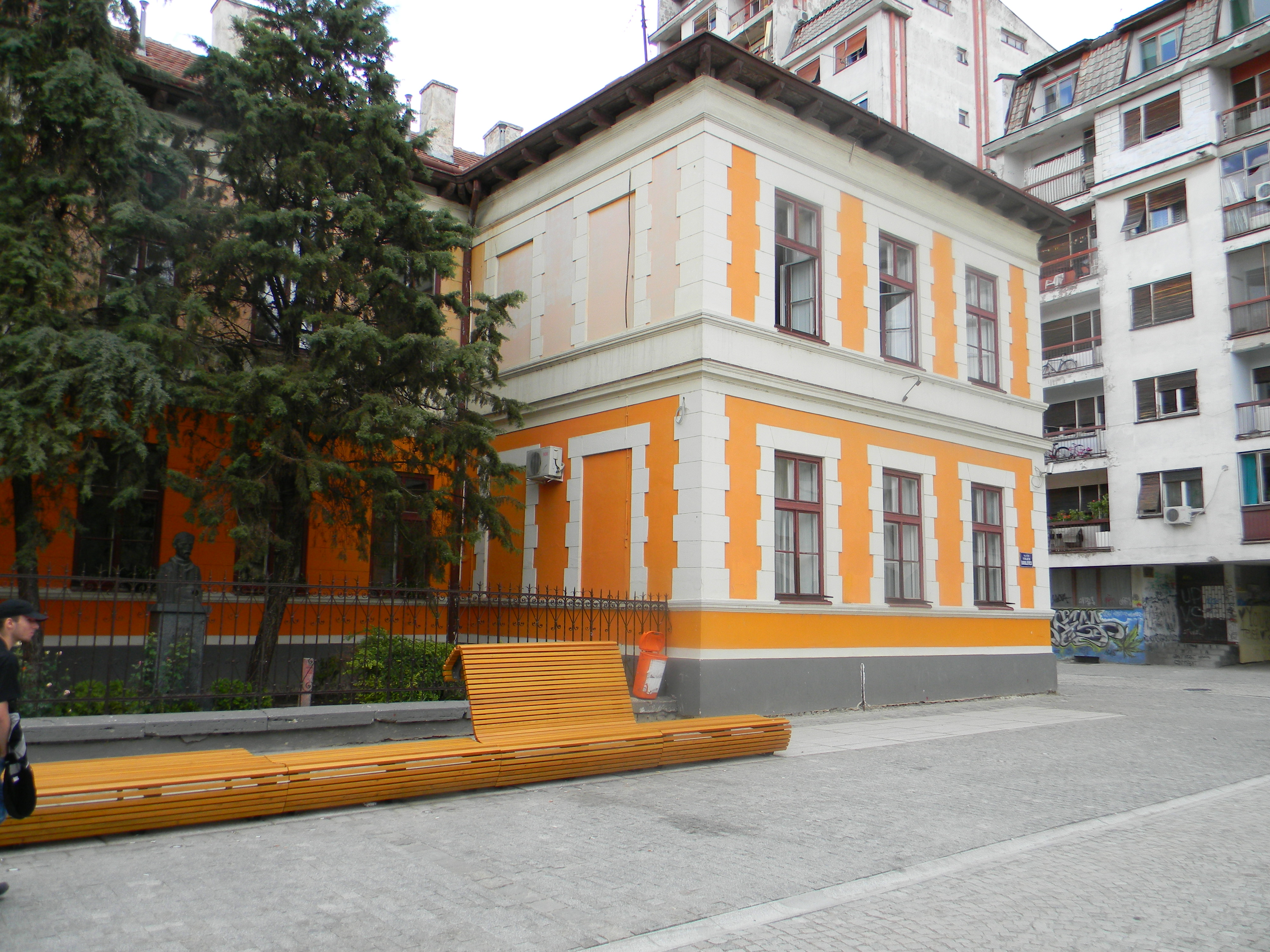 Gimnasium in Pančevo